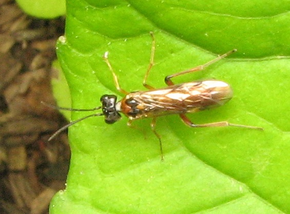 Sawfly, Taxonus pallipes. Churchville Nature Center, Bucks County, Pennsylvania, USA.